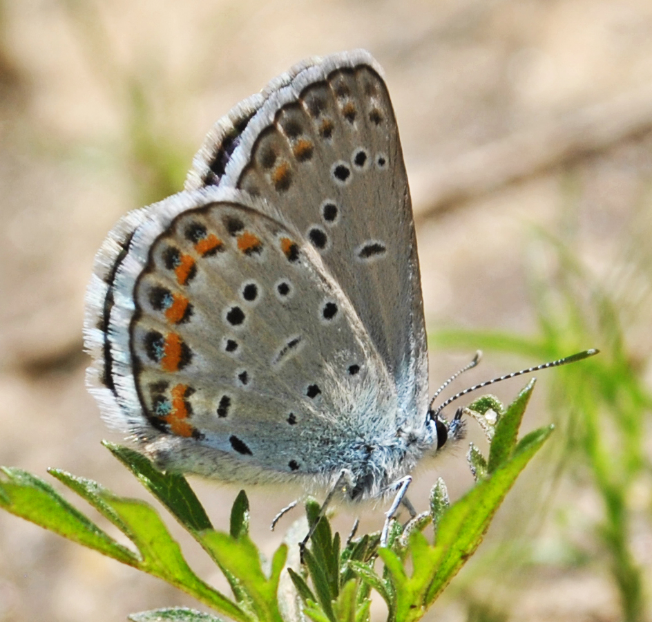 A federally endgangered species. Canoe Landing Prairie State Natural Area, Eau Claire Co., WI